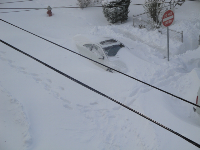 Snow in Journal Square during December 2010 North American blizzard